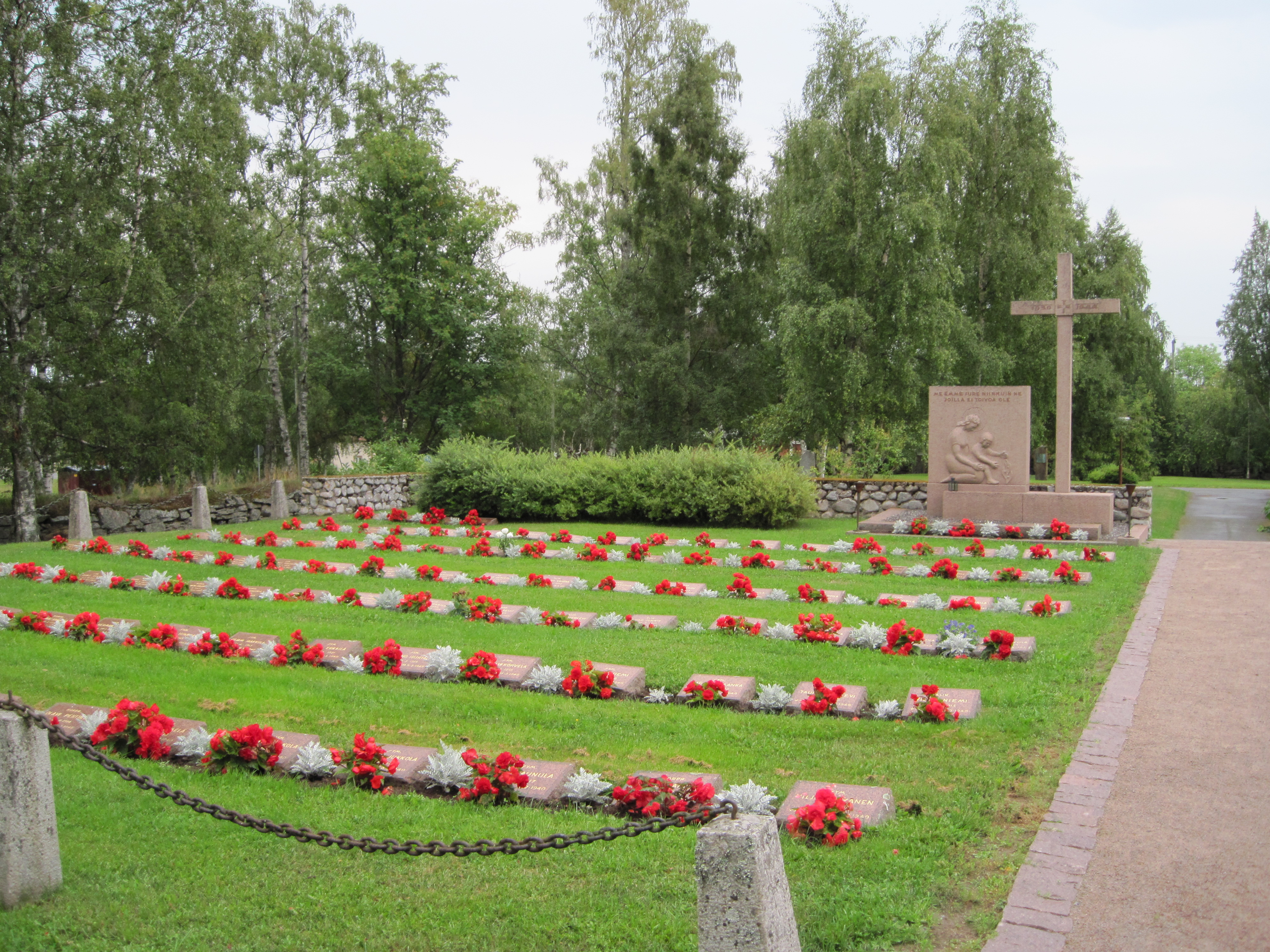 Military cemetary at Lohtaja church in Lohtaja , Finland